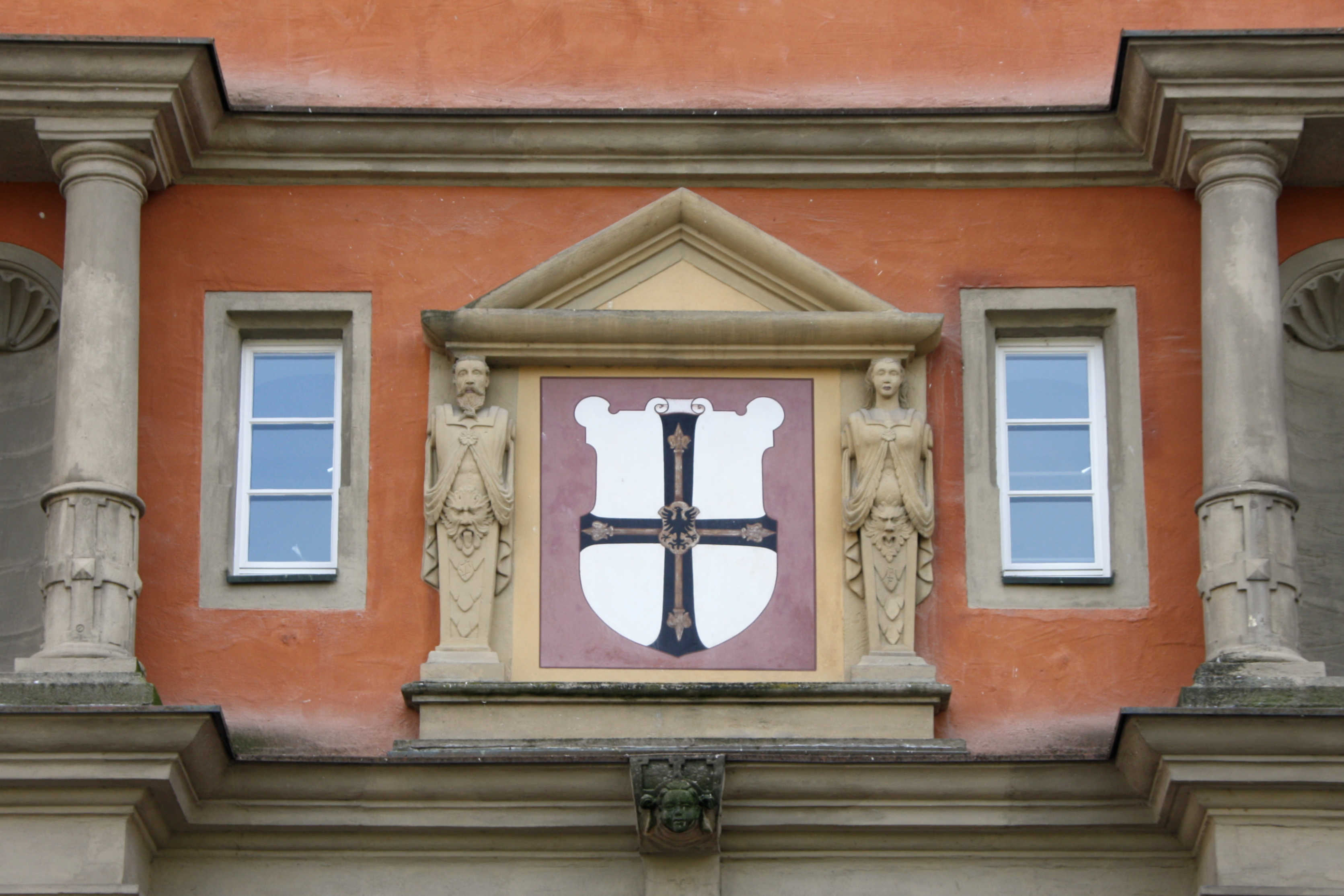 Coat of arms of the Deutscher Orden at the castleyard´s archway in Bad Mergentheim